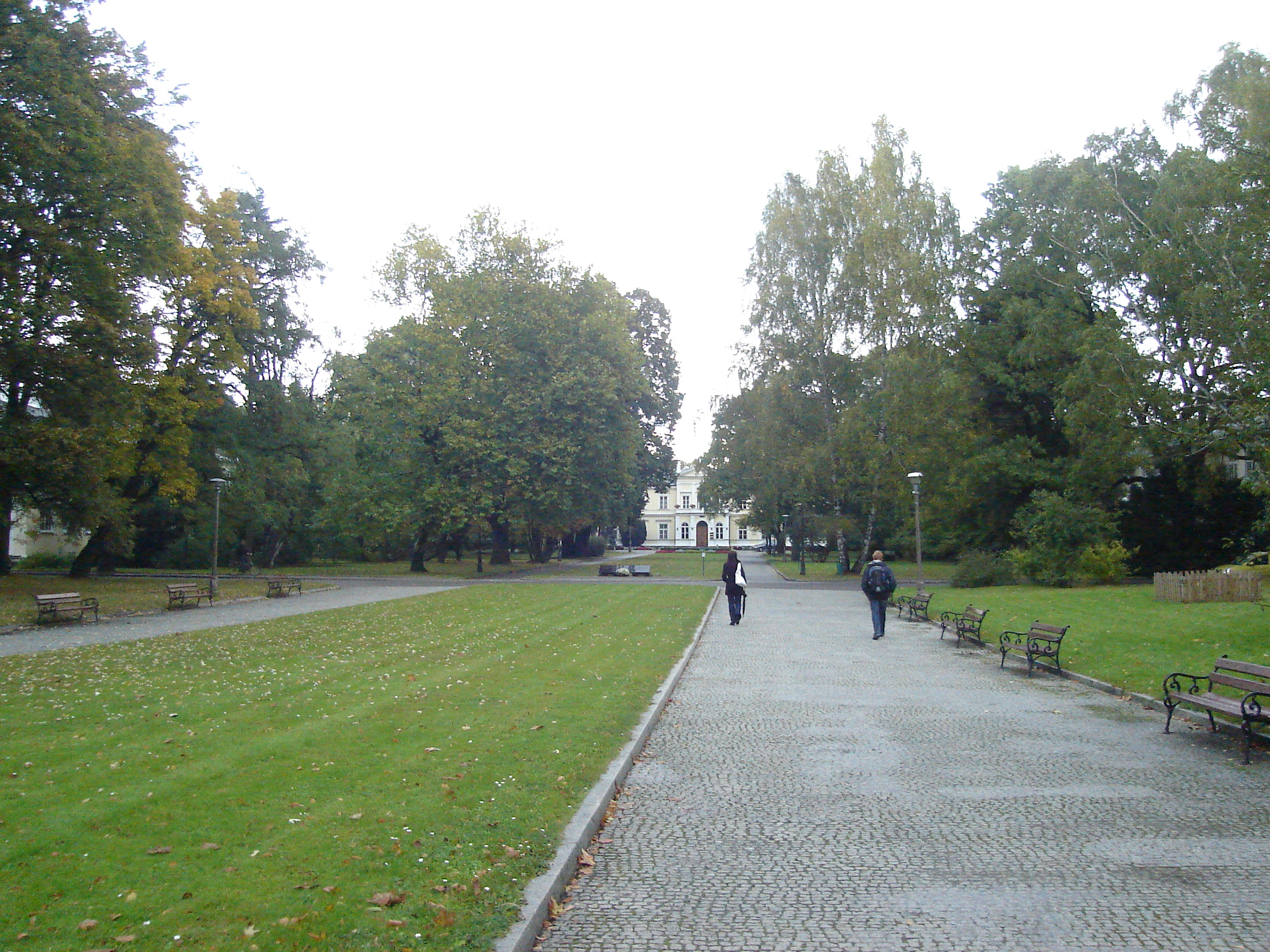 SGGW Garden